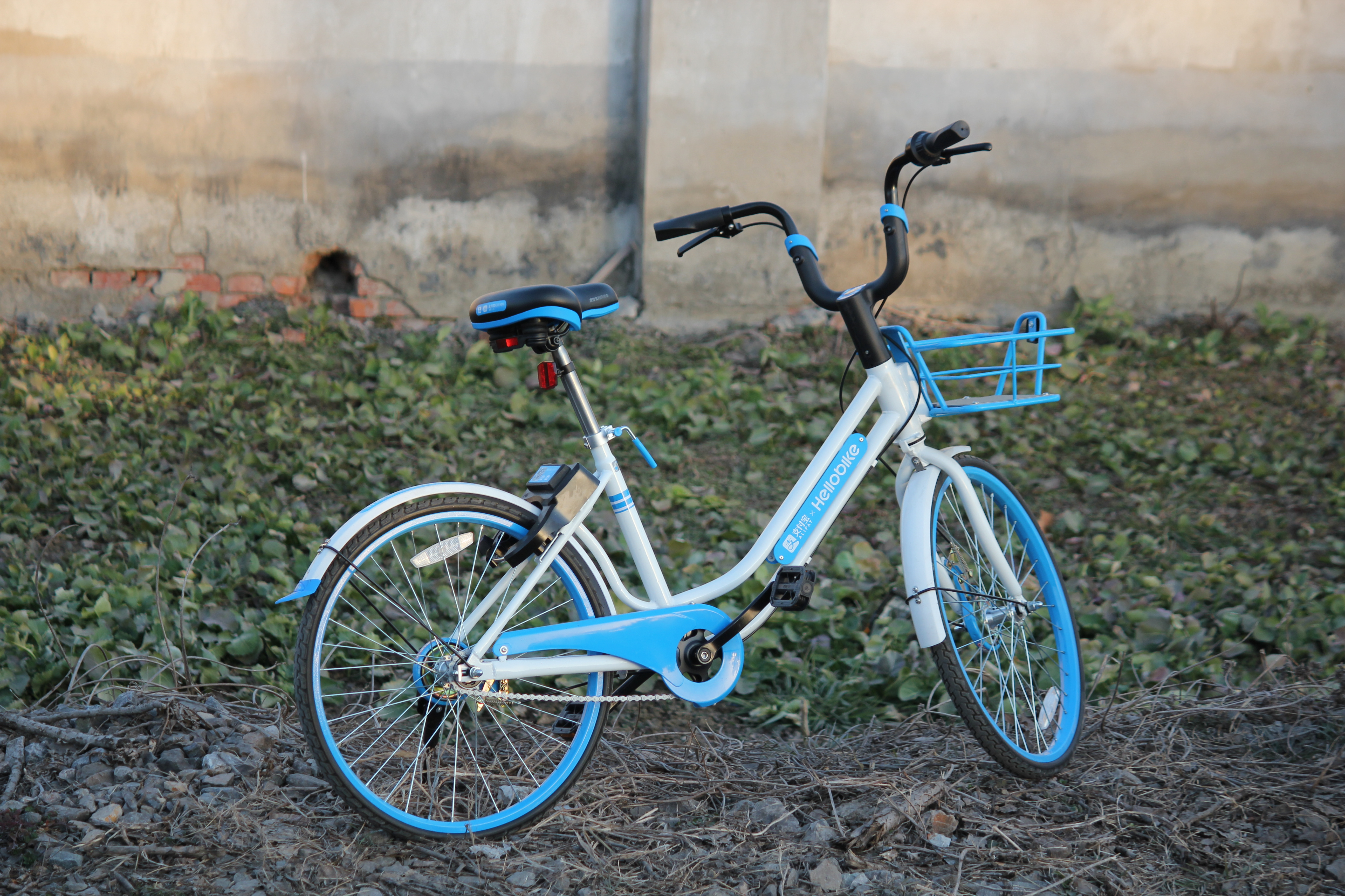 Hellobike in Bengbu Anhui.